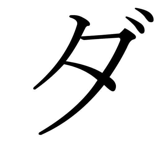 The katana character 'da'.